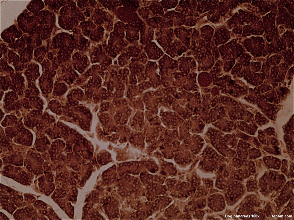 Microscopic image of dog pancreas Histology